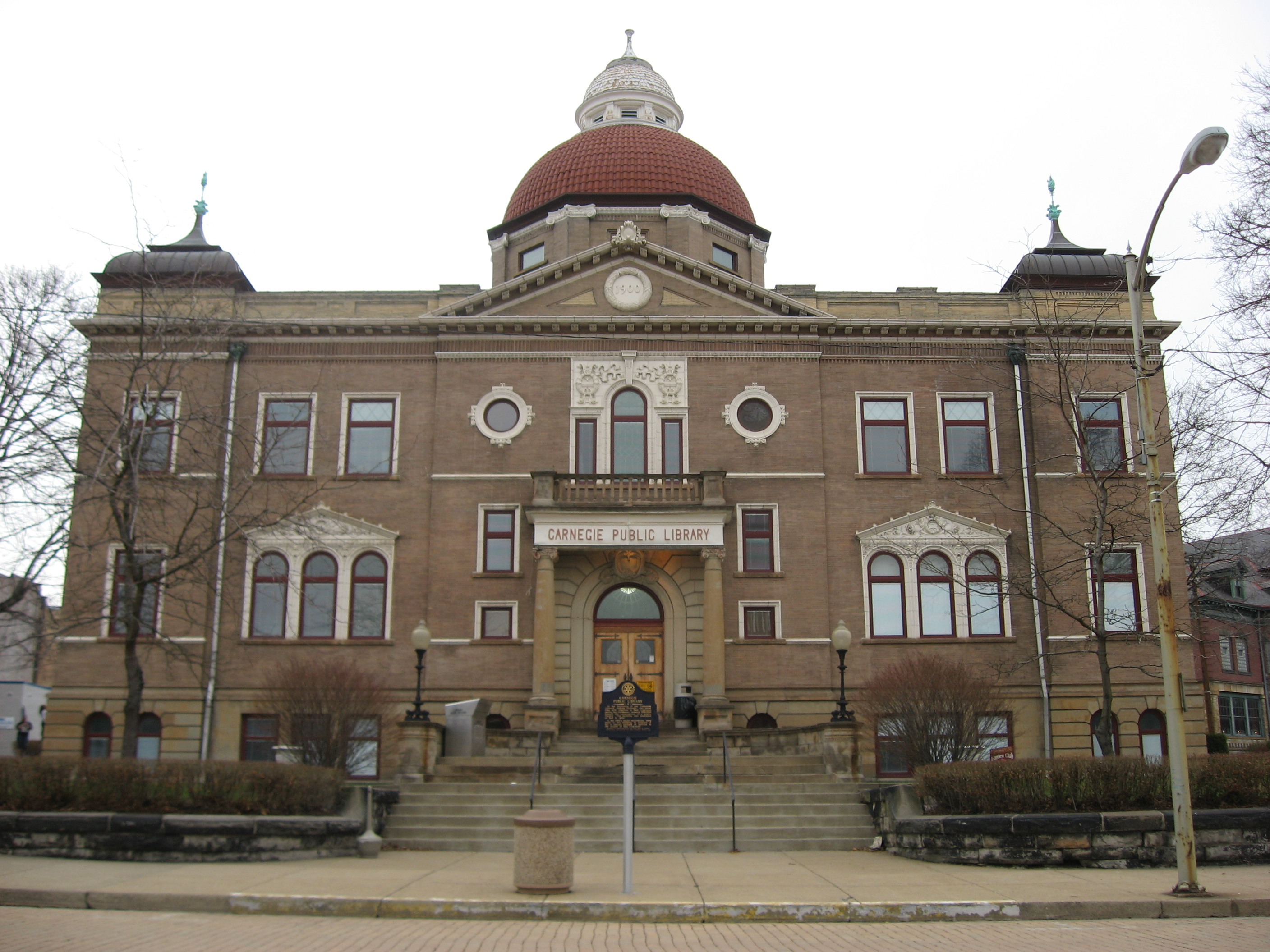 Front of the Carnegie Public Library, located at 219 East Fourth Street in downtown East Liverpool, Ohio, United States. Built in 1900, the library is listed on the National Register of Historic Places.